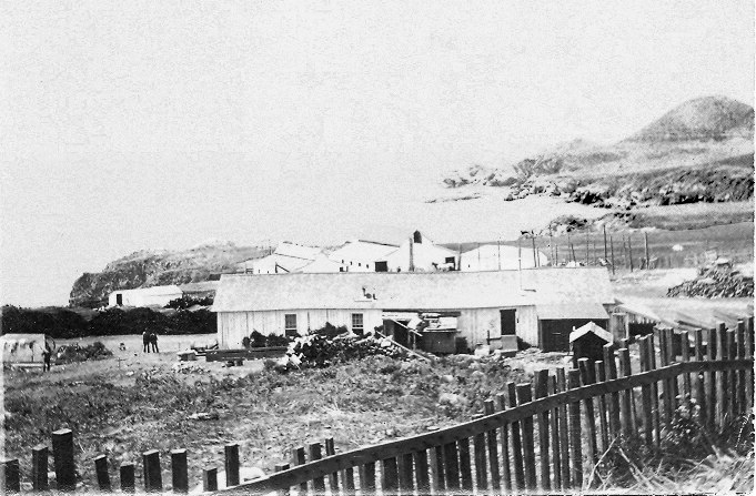 Notley Landing on the Big Sur coast in 1904